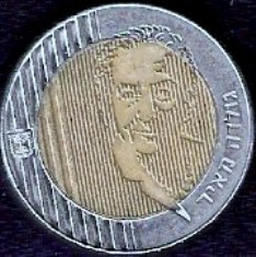 Reverse side of a 10 NIS coin portraying Golda Meir